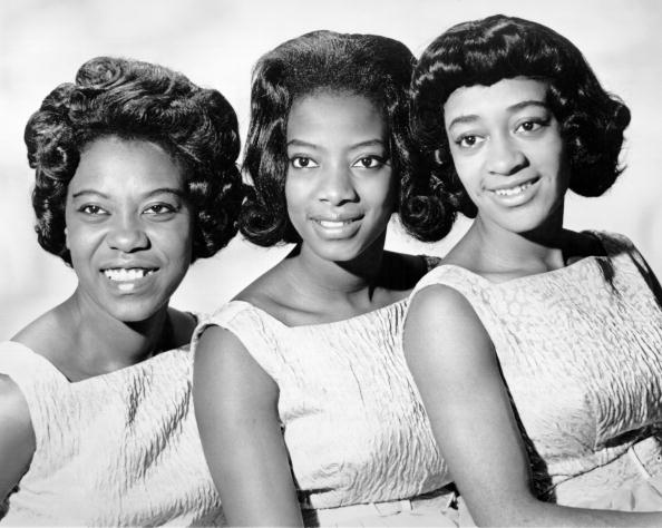 Photo of the vocal group, The Cookies.